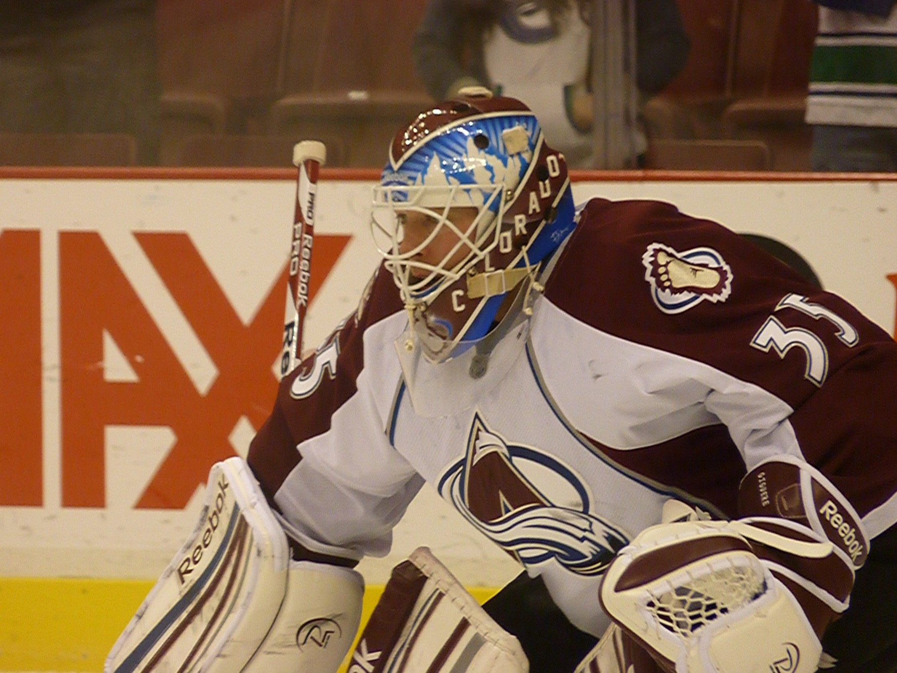 Col @ Van, 30-Jan-13